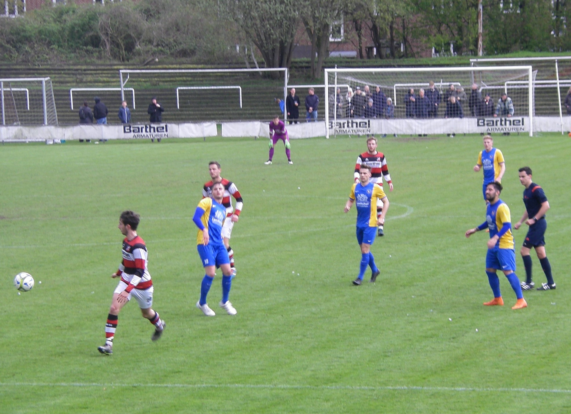 Scene of the oldest city derby which is still played in Germany, between Altona 93 and Victoria Hamburg, April 2016.